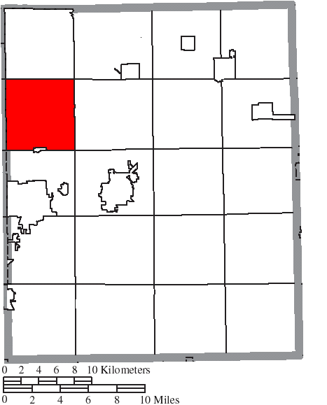 Map of the municipal and township boundaries of Portage County, Ohio, United States, as of the 2000 census, with the location of the city of Streetsboro highlighted. Township borders are shown only in unincorporated areas in order to differentiate incorporated and unincorporated areas more clearly.